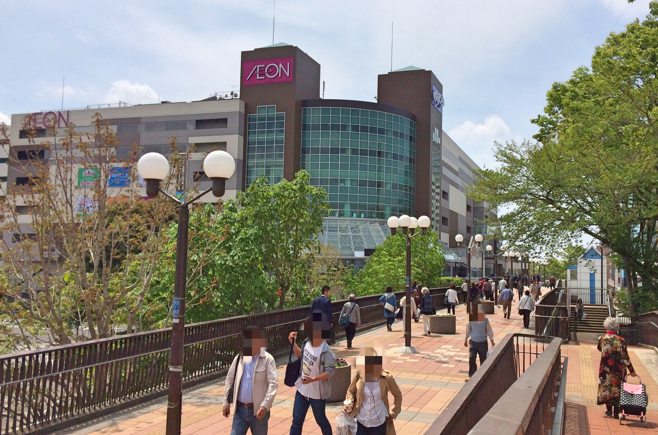 Walkway from Kamatori Station to Aeon Kamtori Store